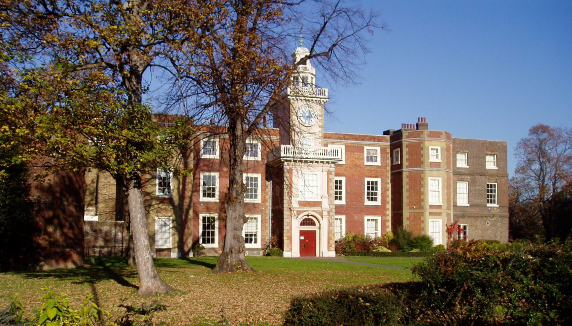 Bruce Castle, Lordship Lane, London N17.